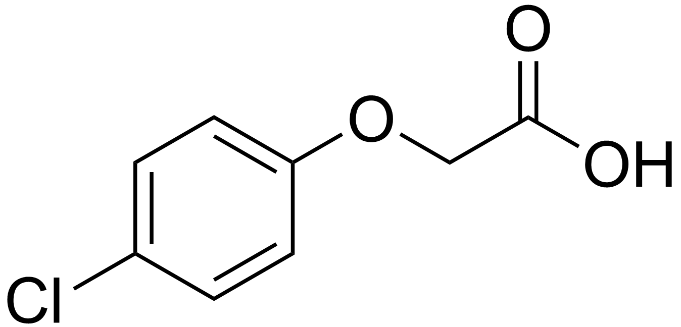 Chemical structure of 4-chlorophenoxyacetic acid